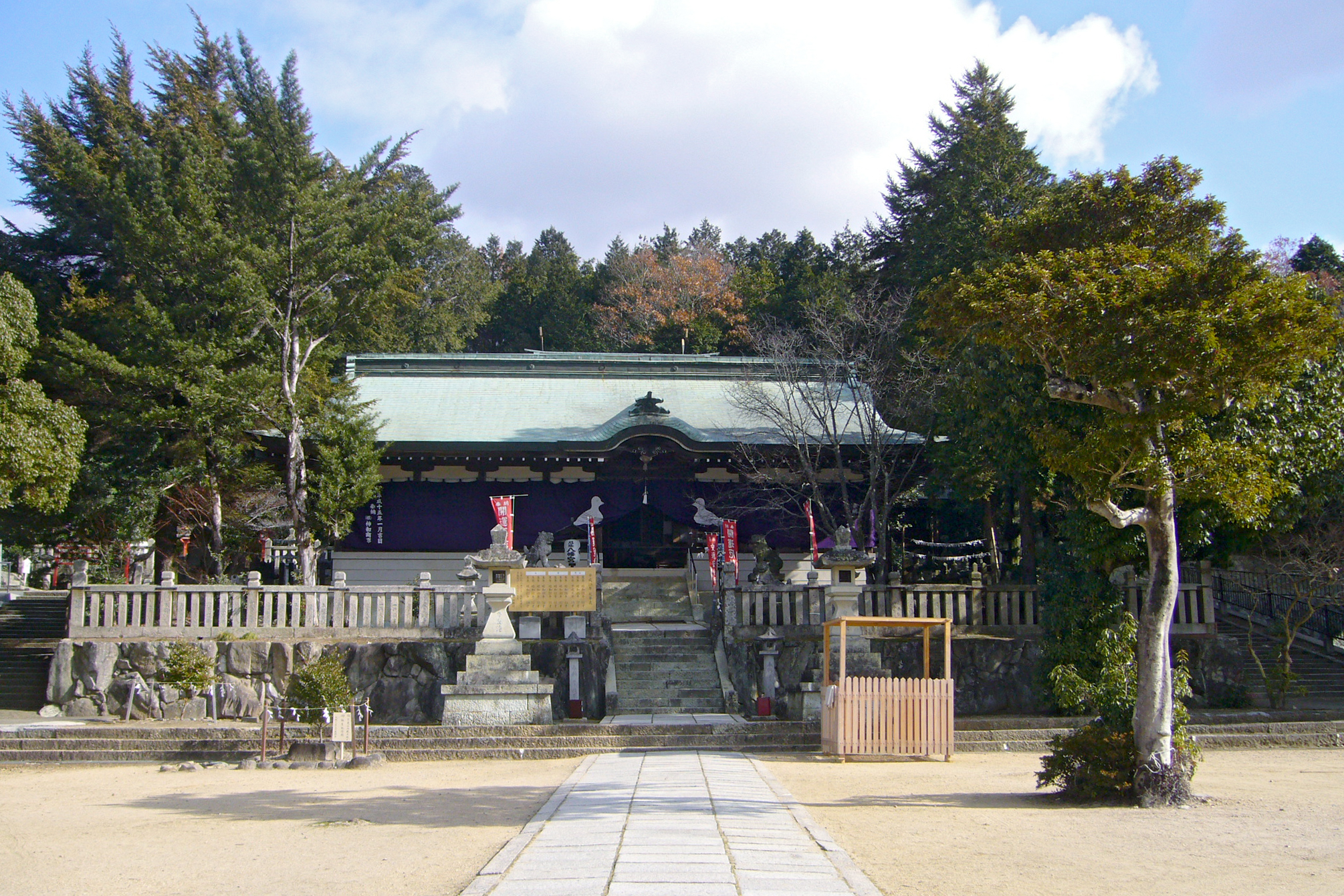 Sousayakujin-hachiman-jinja, Kakogawa, Hyogo prefecture, Japan